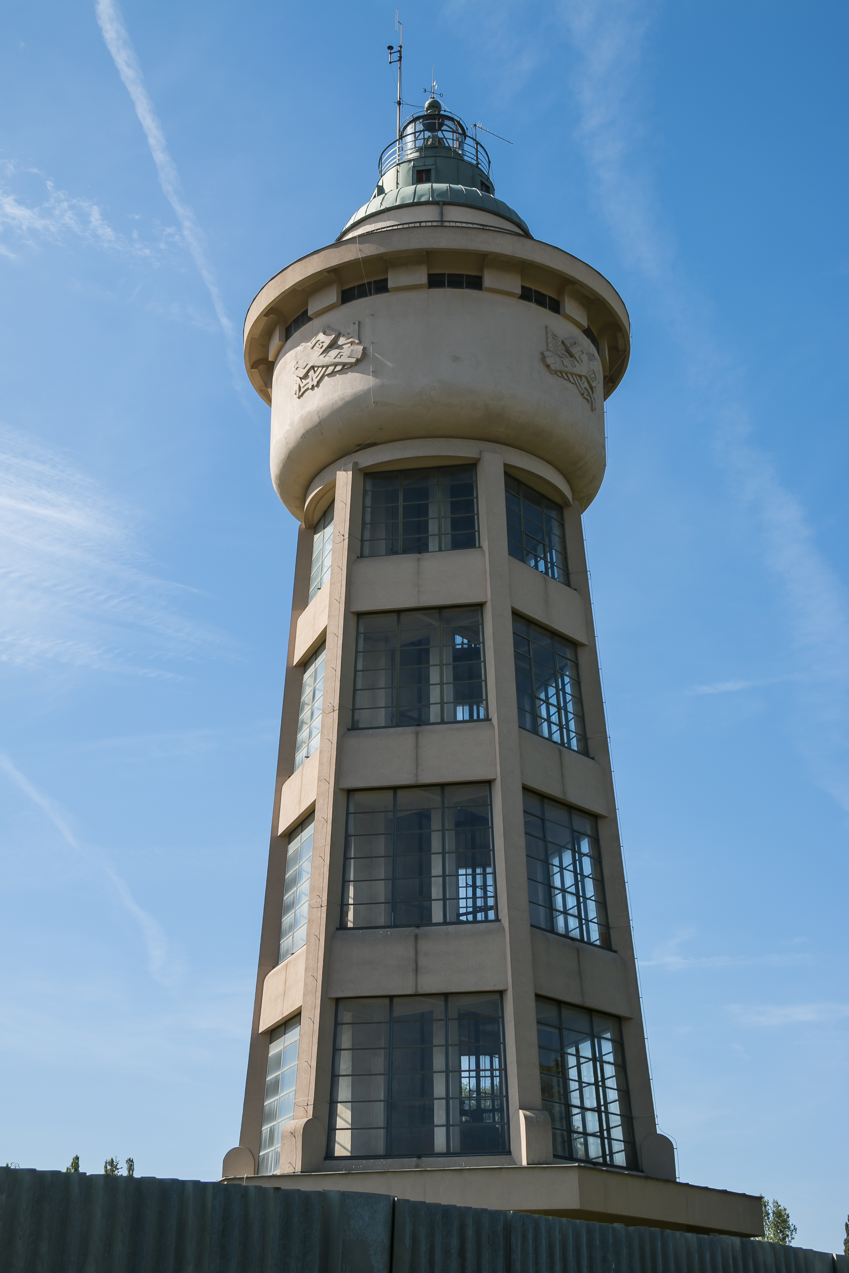 Air Traffic Control Tower, Czech Air Force Museum, Prague-Kbely Airbase